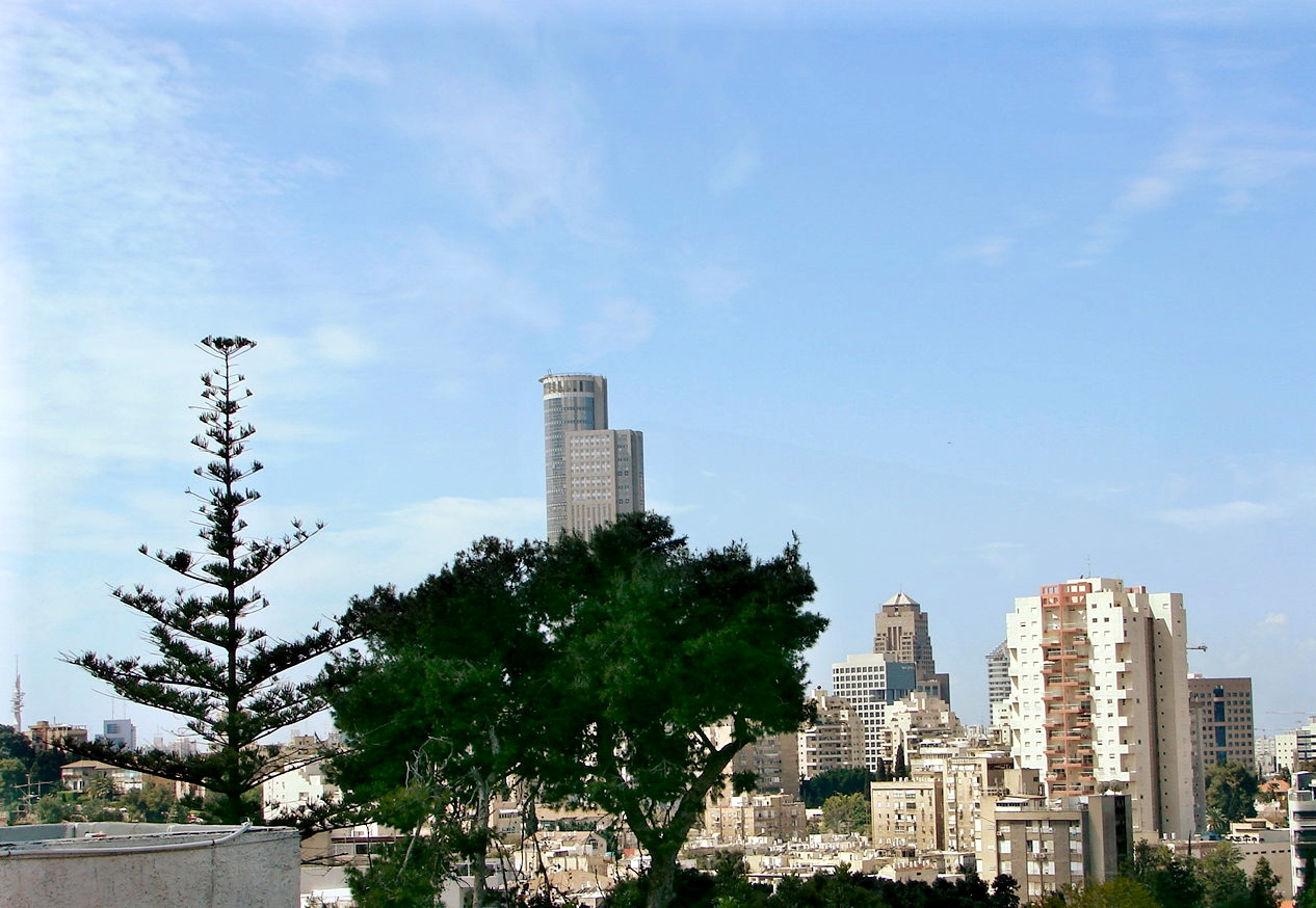 Ramat Gan A view of Ramat Gan from top of Avraham Hill